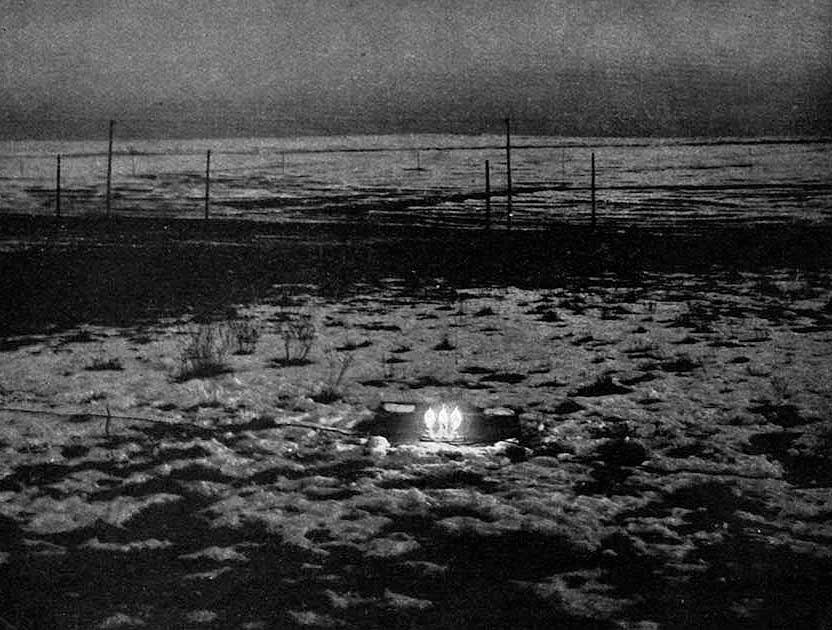 An experiment in wireless power transmission by Nikola Tesla at his laboratory in Colorado Springs in 1899. This is a bank of lights attached to a large 50 foot wire loop antenna, receiving power from Tesla's high voltage "oscillator" transmitter, a large Tesla coil 100 feet away. This experiment seems to be Tesla's longest distance power transmission for which there is hard evidence. Caption of the picture in Tesla's June 1900 Century magazine article: "EXPERIMENT TO ILLUSTRATE AN INDUCTIVE EFFECT OF AN ELECTRICAL OSCILLATOR OF GREAT POWER - The photograph shows three ordinary incandescent lamps lighted to full candle-power by currents induced in a local loop consisting of a single wire forming a square of fifty feet each side, which includes the lamps, and which is at a distance of one hundred feet from the primary circuit energized by the oscillator. The loop likewise includes an electrical condenser, and is exactly attuned to the vibrations of the oscillator, which is worked at less than five percent of its total capacity."